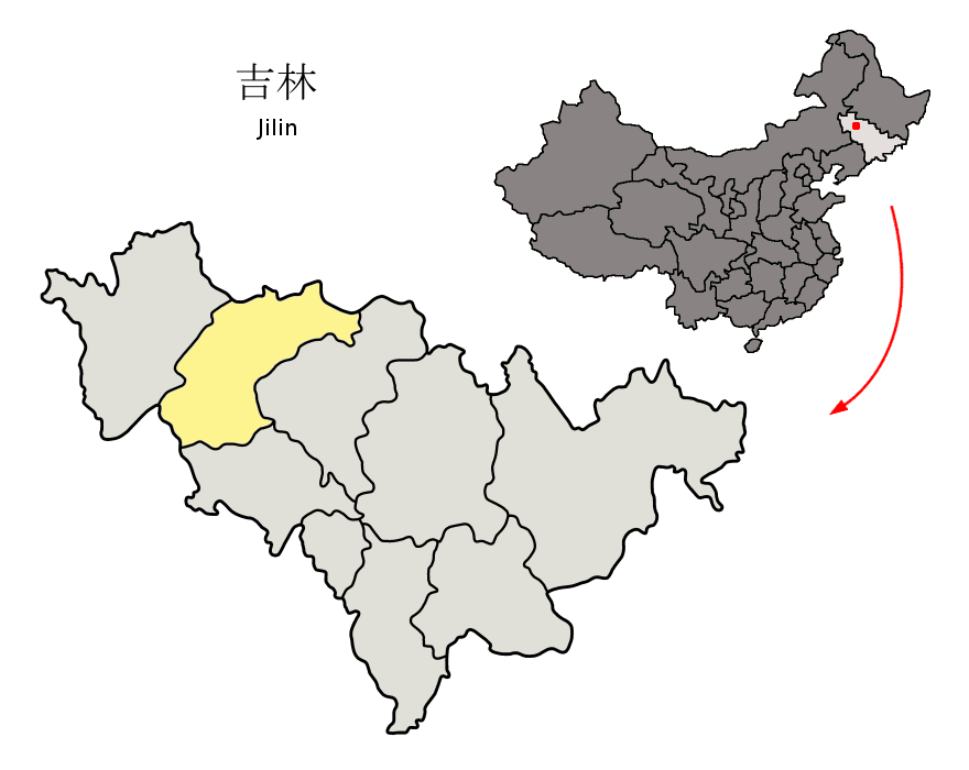 Location of Songyuan Prefecture (yellow) within Jilin Province of China Map drawn in november 2007 using various sources, mainly : Jilin Province administrative regions GIS data: 1:1M, County level, 1990 Jilin Counties map from